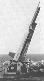 Technicians ready a Nike-Apache on board USNS Croatan (T-AKV-43), Wallops Flight Center mobile range facility.